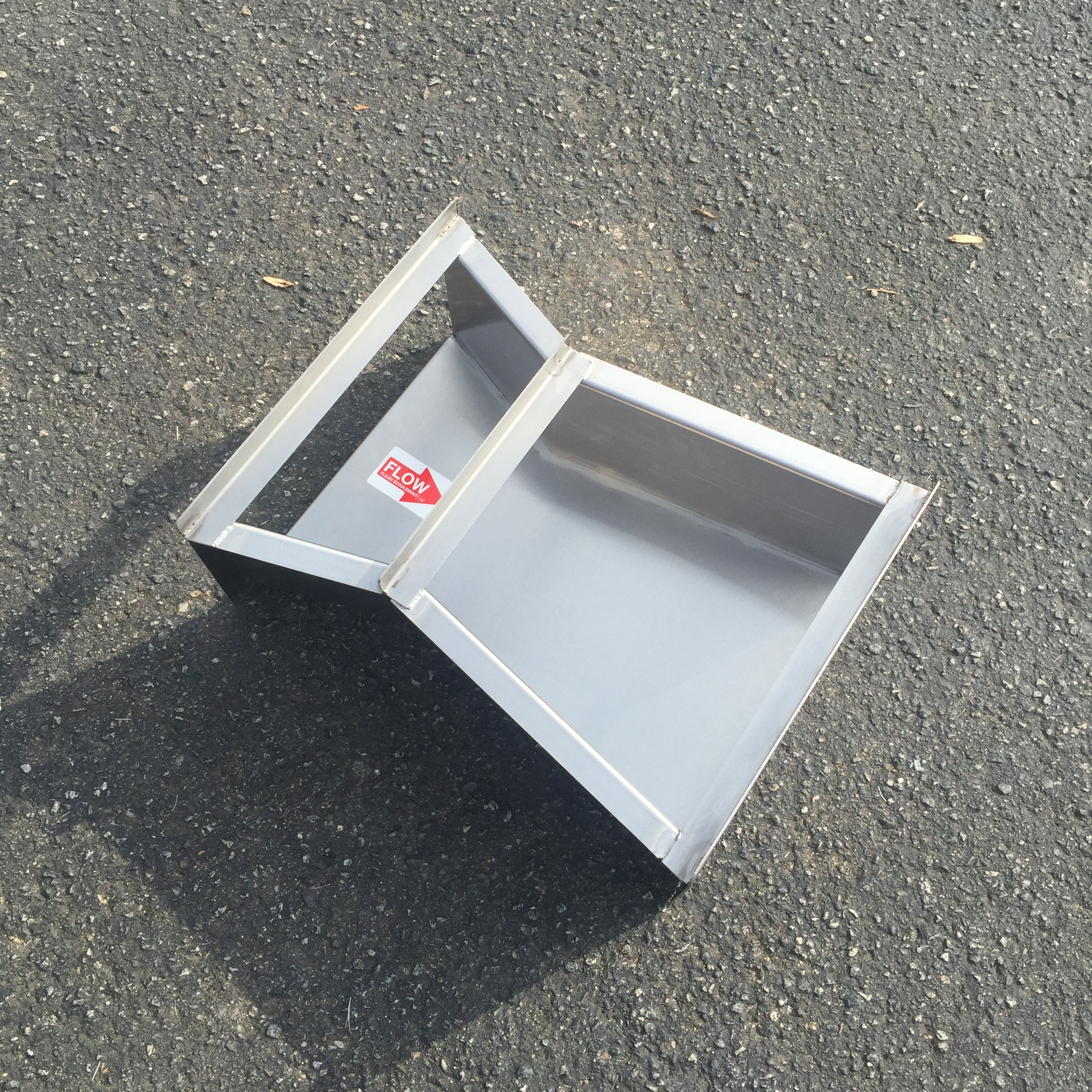 18-inch long x 8-inch wide T-304 stainless steel Cutthroat flume